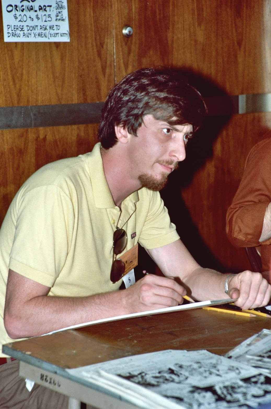 Photo of Frank Miller at 1982 San Diego Comic Con depicted person: Frank Miller (age: 25)